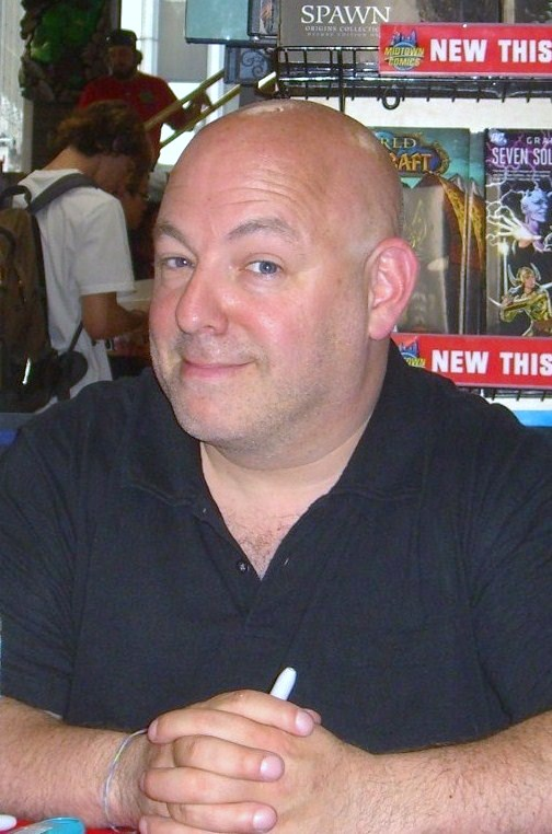 Writer Brian Michael Bendis at a book signing at Midtown Comics Times Square in Manhattan, June 21, 2010. This photo was created by Luigi Novi. It is not in the public domain, and use of this file outside of the licensing terms is a copyright violation.